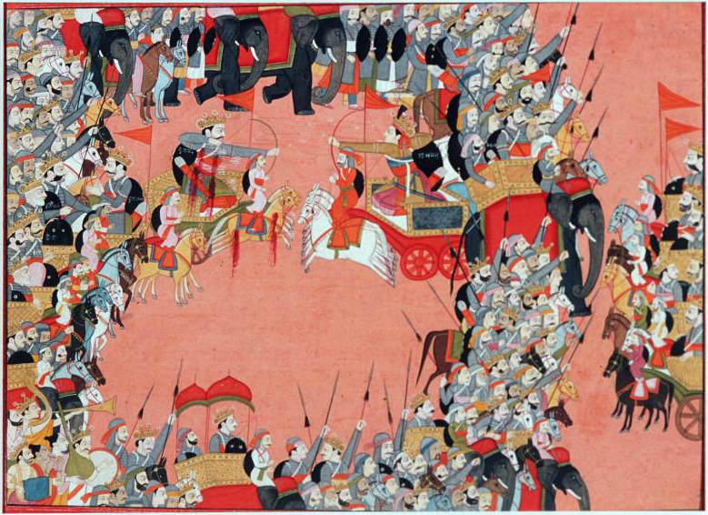 Object ID: F2003.34.16.1 Designation: The Pandava brothers' nephew Abhimanyu battles the Kaurava brother Duhshasana, from a manuscript of the Mahabharata (Great Chronicle of the Bharata Dynasty) Date: approx. 1803 Medium: Opaque watercolors on paper Place of Origin: India Himachal Pradesh state former kingdom of Kangra Credit Line: Gift of Mr. Johnson S. Bogart Label: Yudhisthira asks his nephew Abhimanyu to break into the formation, creating a passage for the rest of the Pandavas. Abhimanyu succeeds but is quickly surrounded by enemies. In this painting he and Duhshasana, one of the Kaurava brothers, attack each other in their chariots. At the far right, additional Kaurava forces led by King Jayadratha are shown preventing the Pandavas from coming to Abhimanyu's aid. Subject: elephant On display: no Collection: PAINTING Dimensions: H. 12 7/8 in x W. 17 1/2 in, H. 32.7 cm x W. 44.4 cm Department: SA